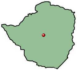 Location of Kwekwe